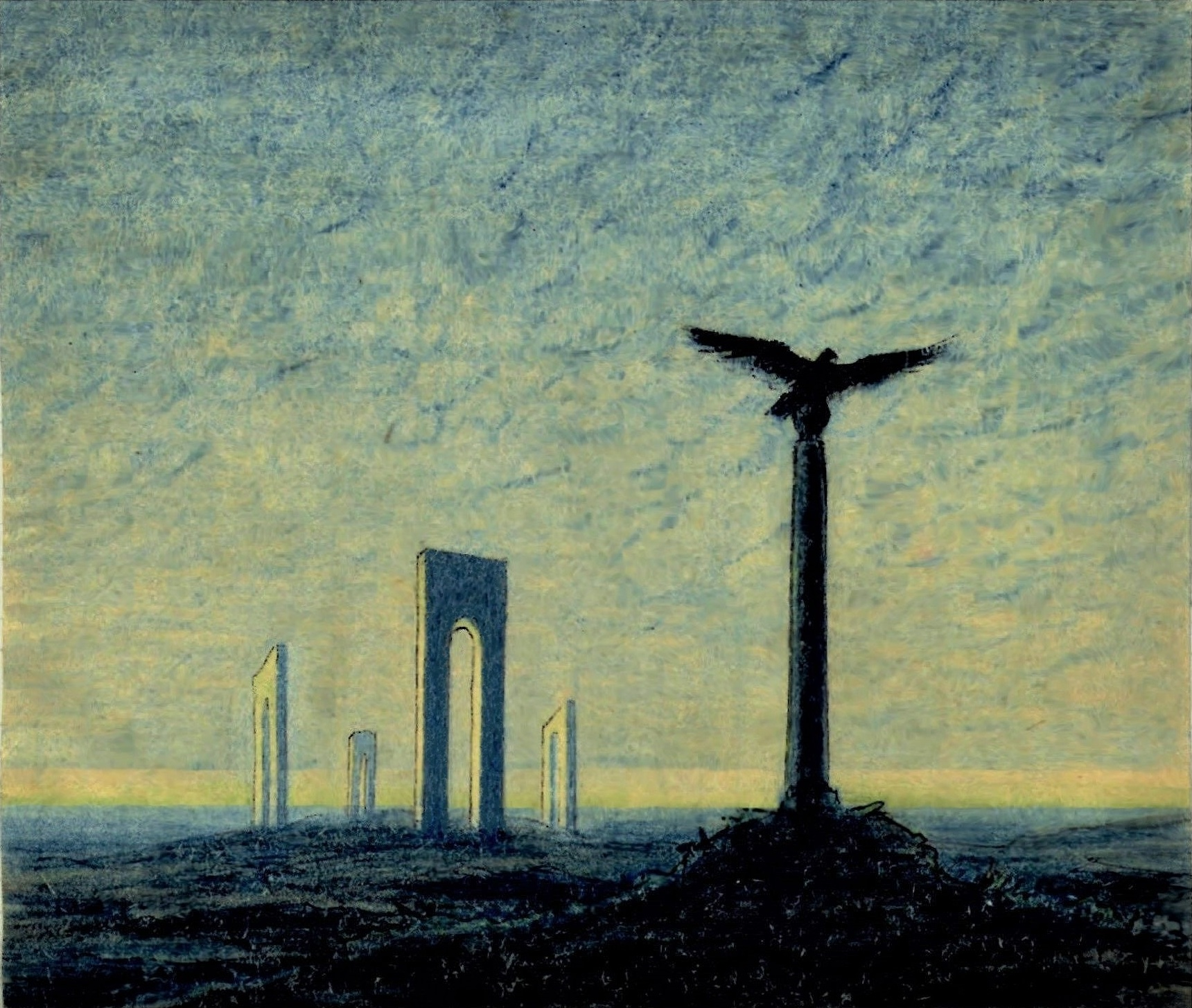 War memorial project.